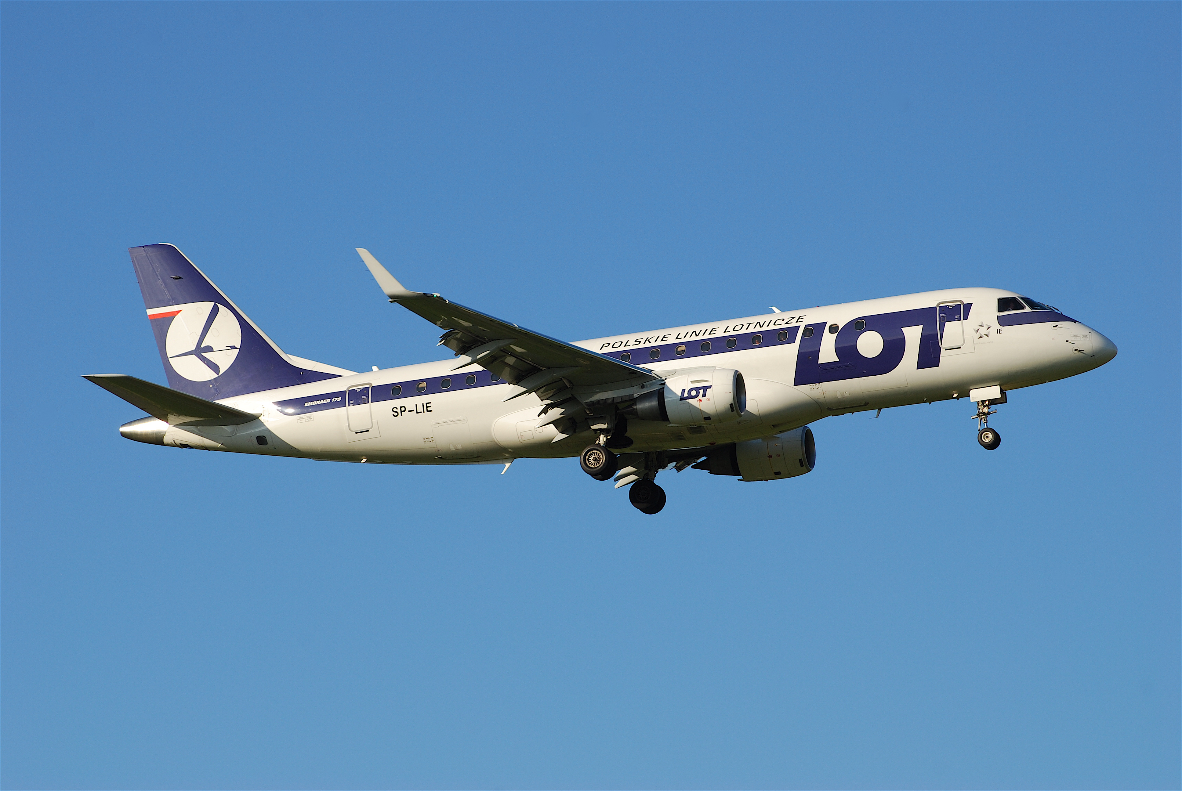 LOT Polish Airlines Embraer ERJ-175; SP-LIE@ZRH;09.08.2008/525da